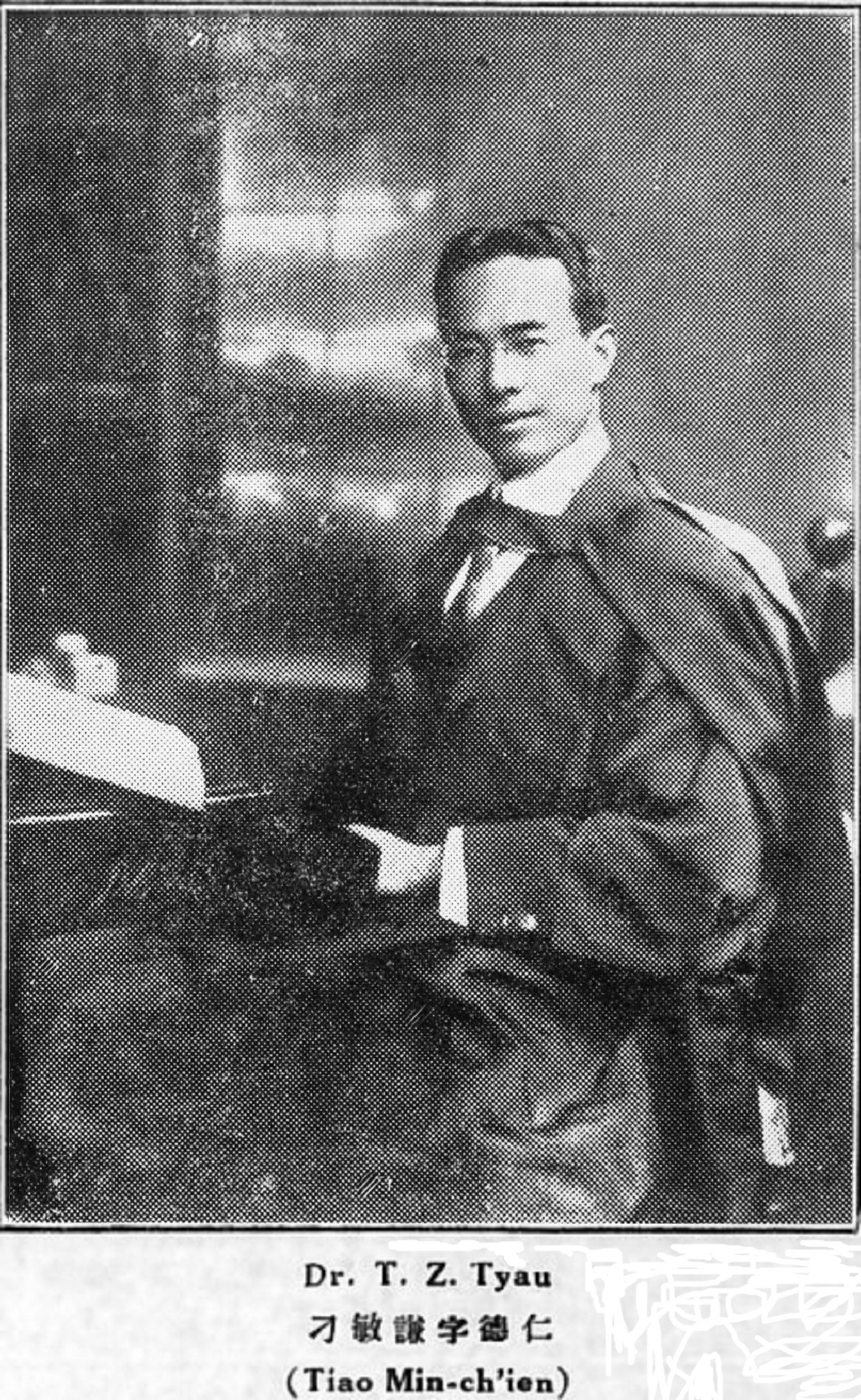 Diao Minqian (Tiao Min-ch'ien; Dr. T. Z. Tyau), Deren (born 1888)